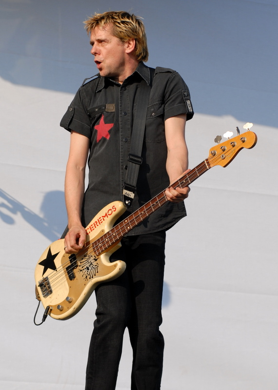 Andi, Die Toten Hosen performing at the "Deine Stimme Gegen Armut" (Your Voice Against Poverty) concert in Rostock, Germany on June 7th, 2007.